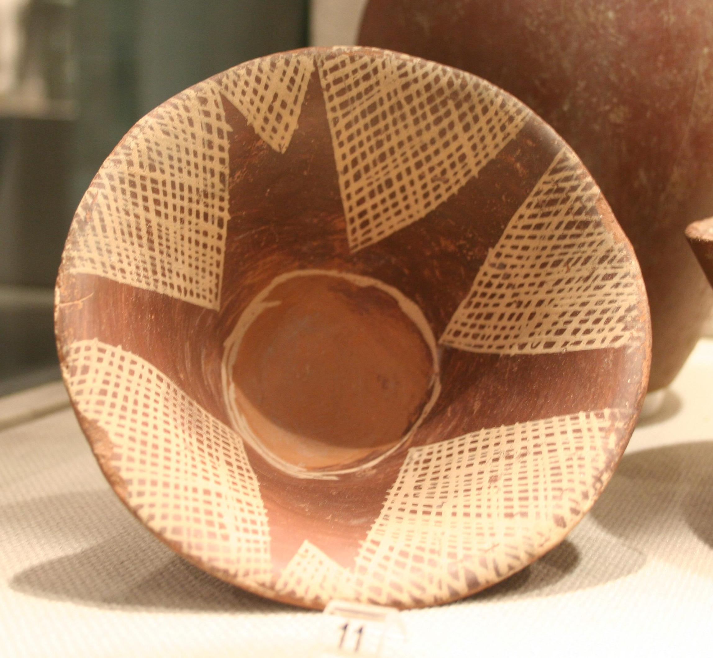 Bowl from Naqada I period (ca. 3700 BC)